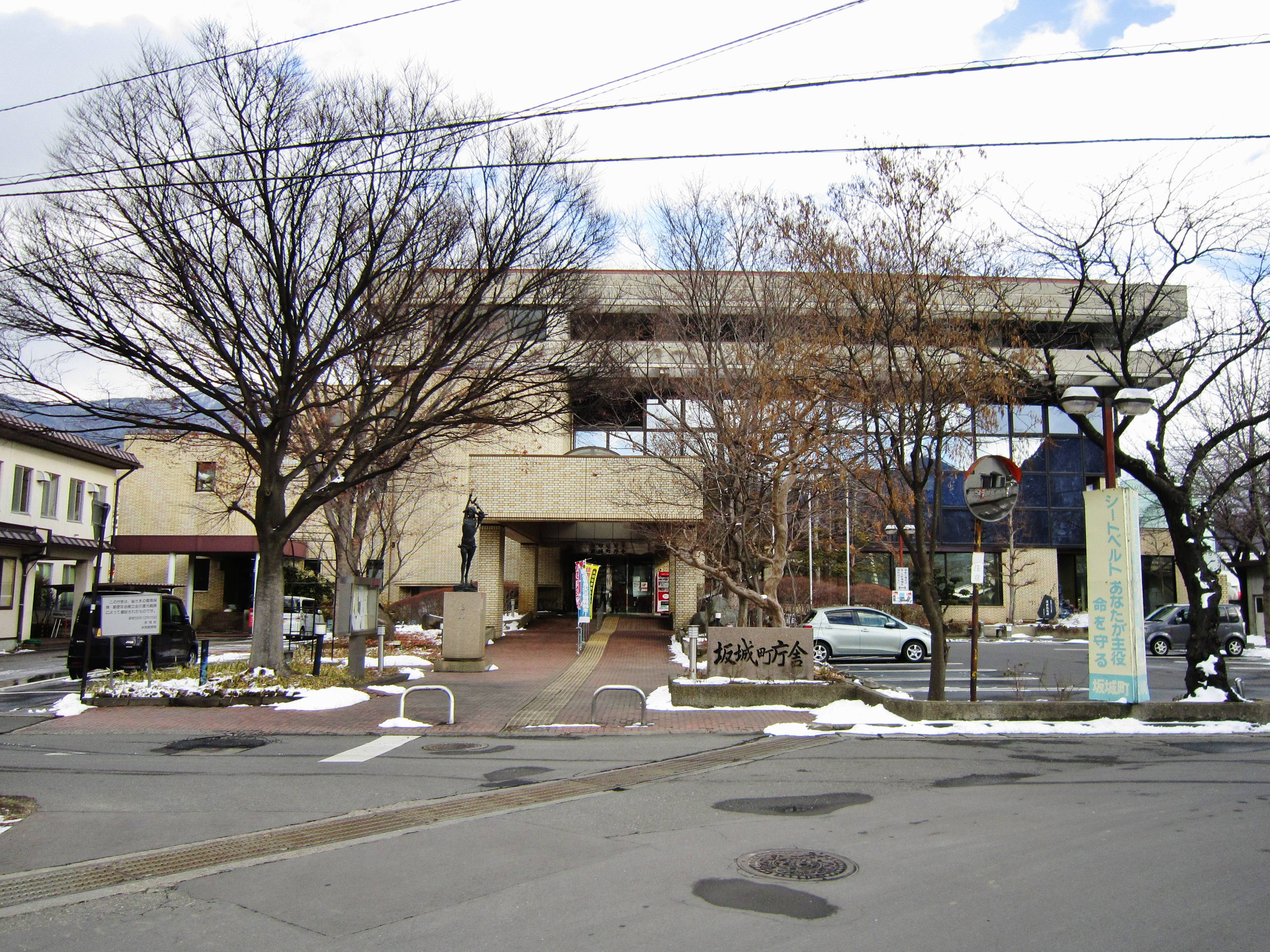 Sakaki town office.